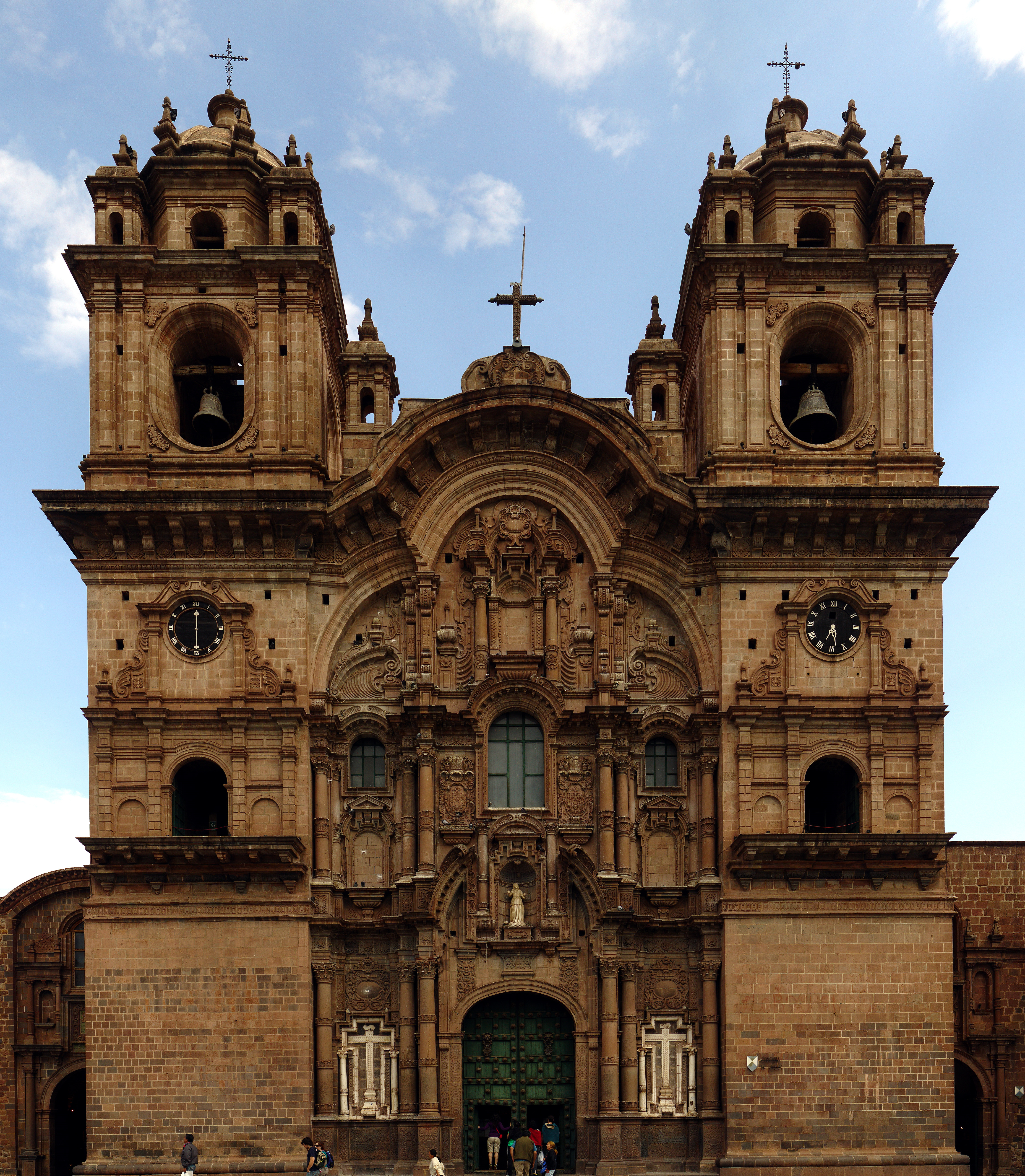 Compañía de Jesus church in Cusco